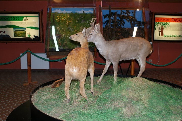 Capreolus capreolus - Cupone Natural Museum - Sila National Park